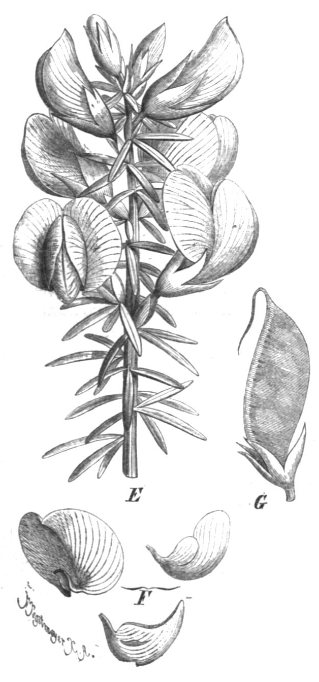 Cyclopia genistoides. Illustration from book